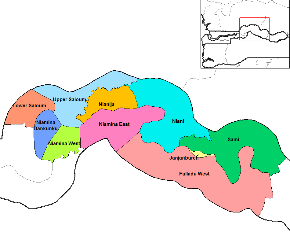 Map of the districts of Central River division in The Gambia. Created by Rarelibra 16:57, 14 September 2006 (UTC) for public domain use, using MapInfo Professional v8.5 and various mapping resources.